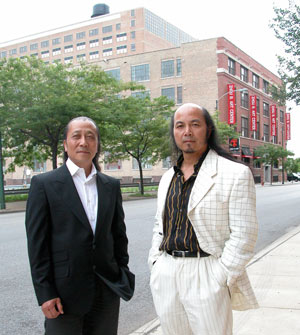 Image of the Zhou Brothers